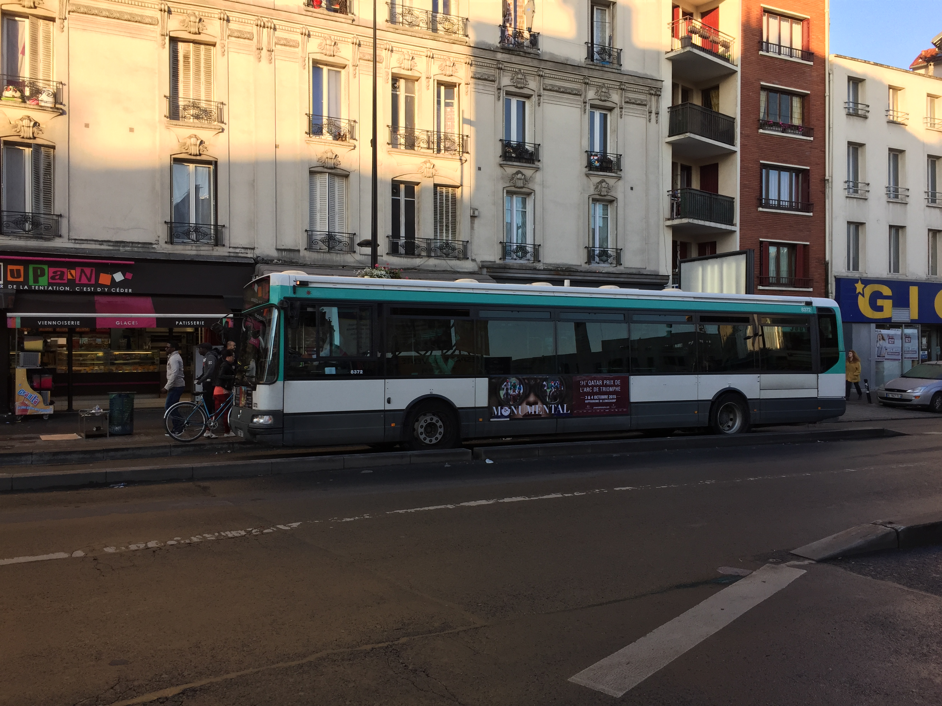 This photograph was taken with an iPhone 6